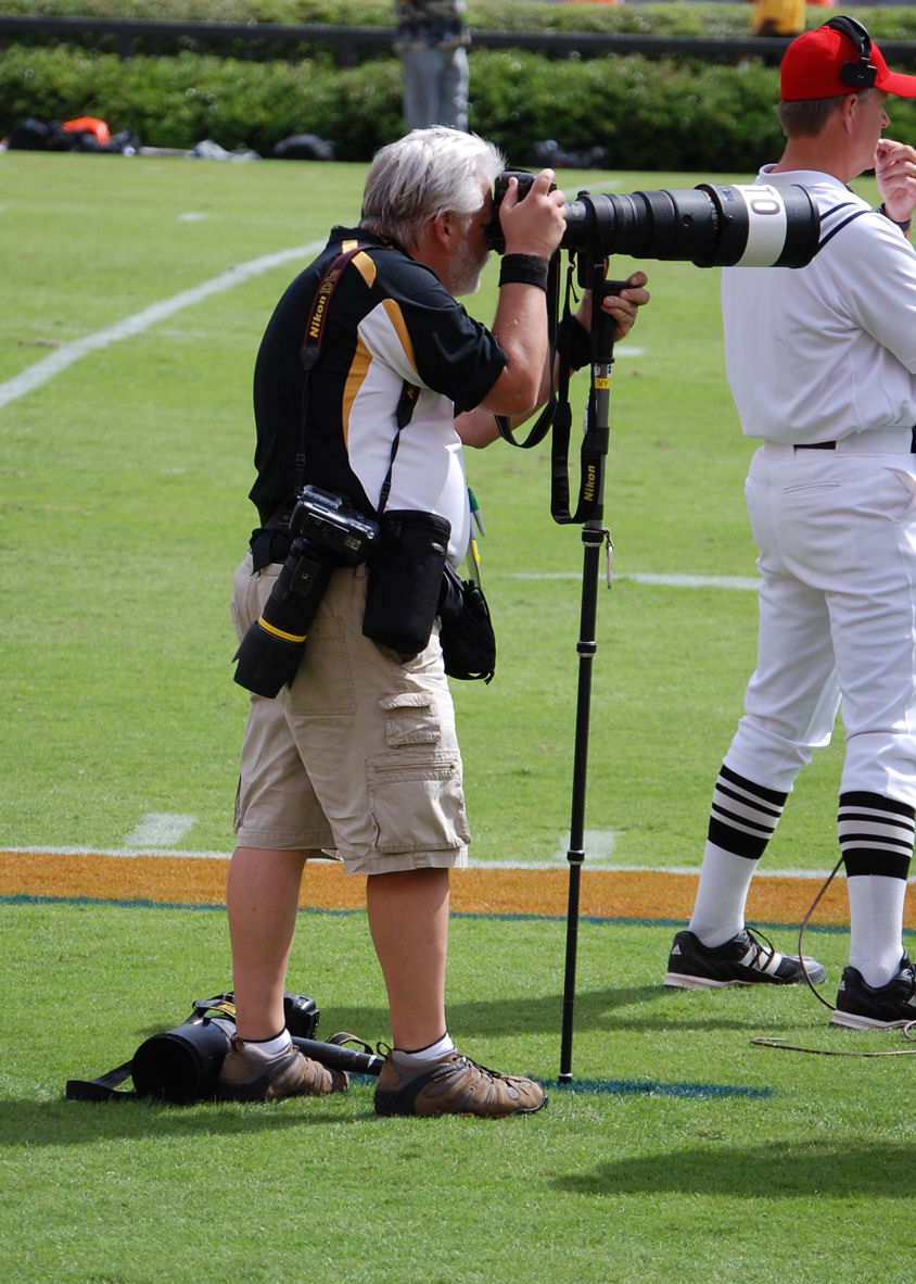 Sports photographer with multiple cameras and telephoto lenses works the sideline of the 2007 Auburn University vs. Vanderbilt University college football game.